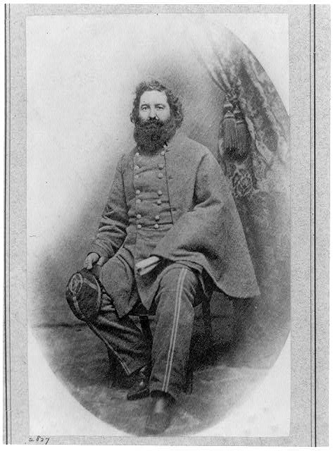 Maj. General L. McLaws